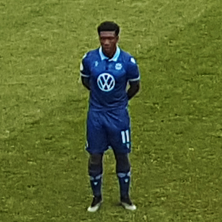 Full Album: HFX Wanderers FC - Cavalry FC 06/19/2019 Akeem Garcia (front) during the Canadian Premier League soccer match between HFX Wanderers FC and Cavalry FC on June 19, 2019, in Halifax, Nova Scotia, Canada.